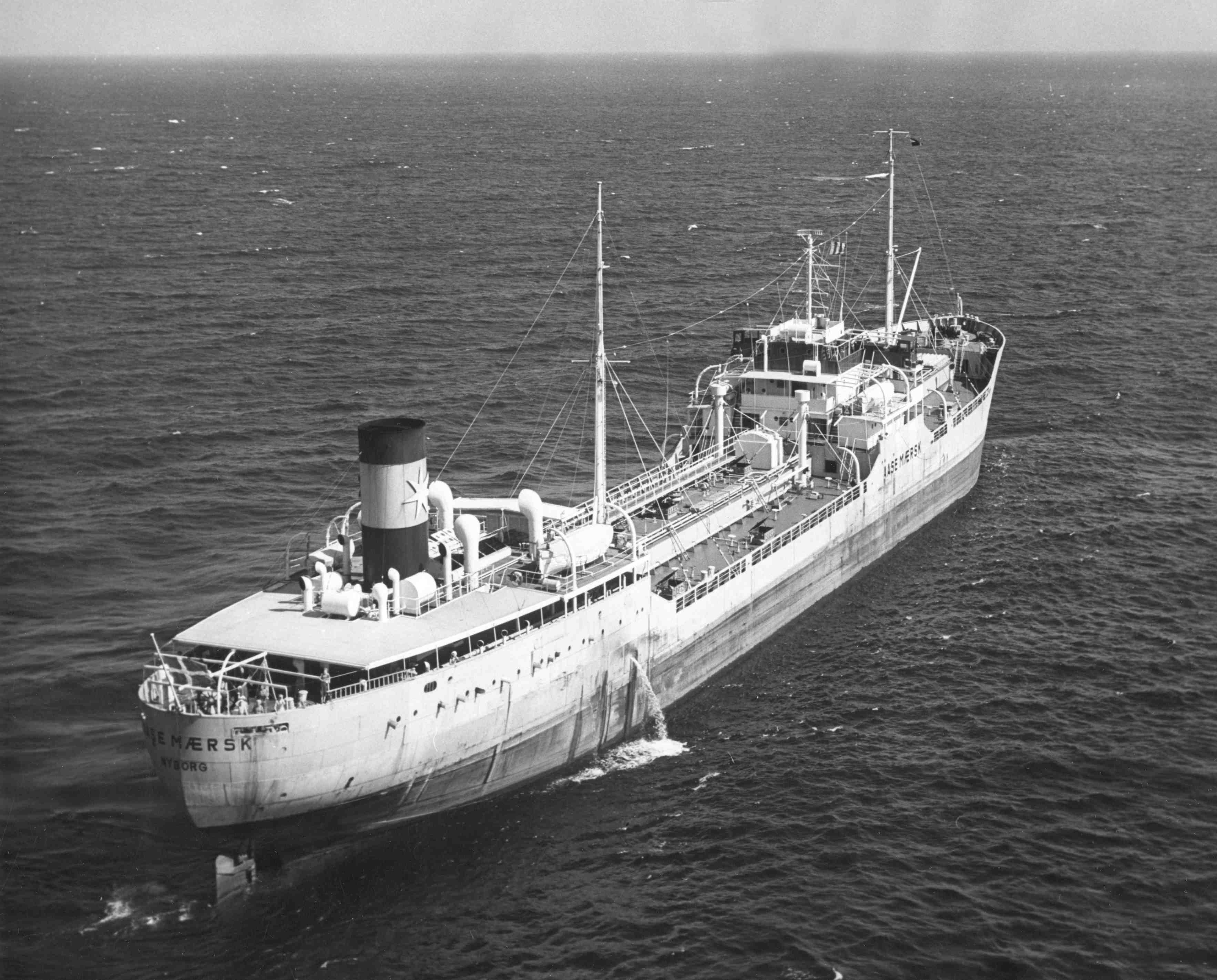 6,184 GRT oil tanker Aase Mærsk, built in 1930